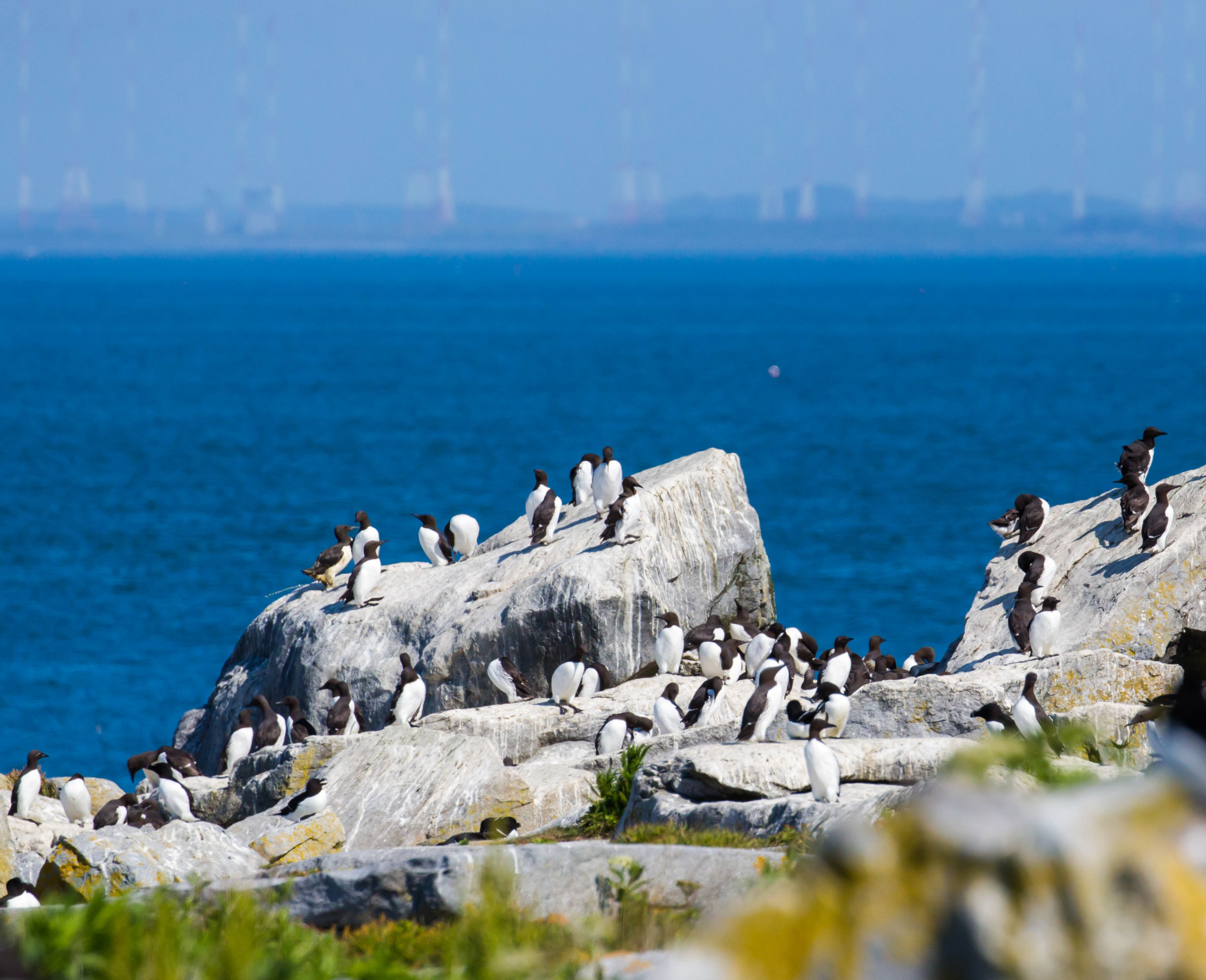 Lesser auks (Alca torda), also called razorbills, on the rocks of Machias Seal Island